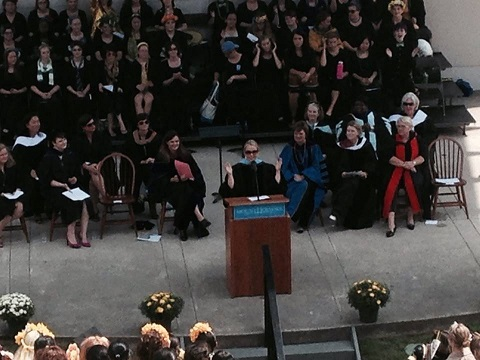 Runell Hall as the new Dean of students at Mt. Holyoke Convocation on 02 September, 2014.